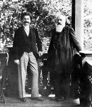 Johann Strauss II (or Johann Strauss the Younger, or Johann Strauss Jr., 1825-1899) with Johannes Brahms (1833–1897). Photo was taken at Bad Ischl in 1894.